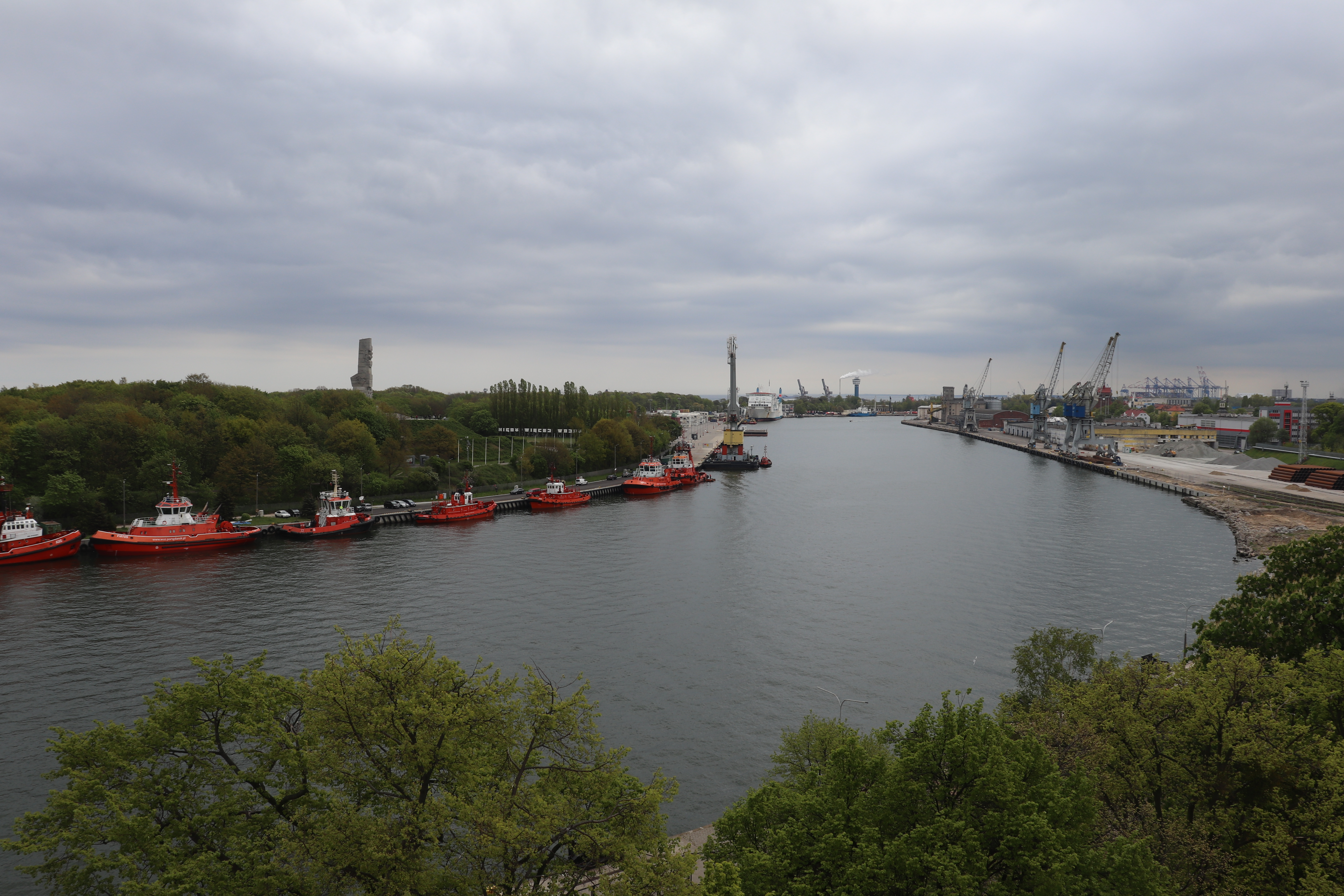 Gdańsk - view from the Nowy Port lighthouse